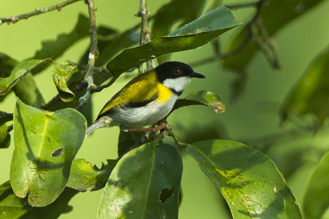 Original caption: "Black-capped Apalis - Ghana_S4E1344" (= Apalis nigriceps)